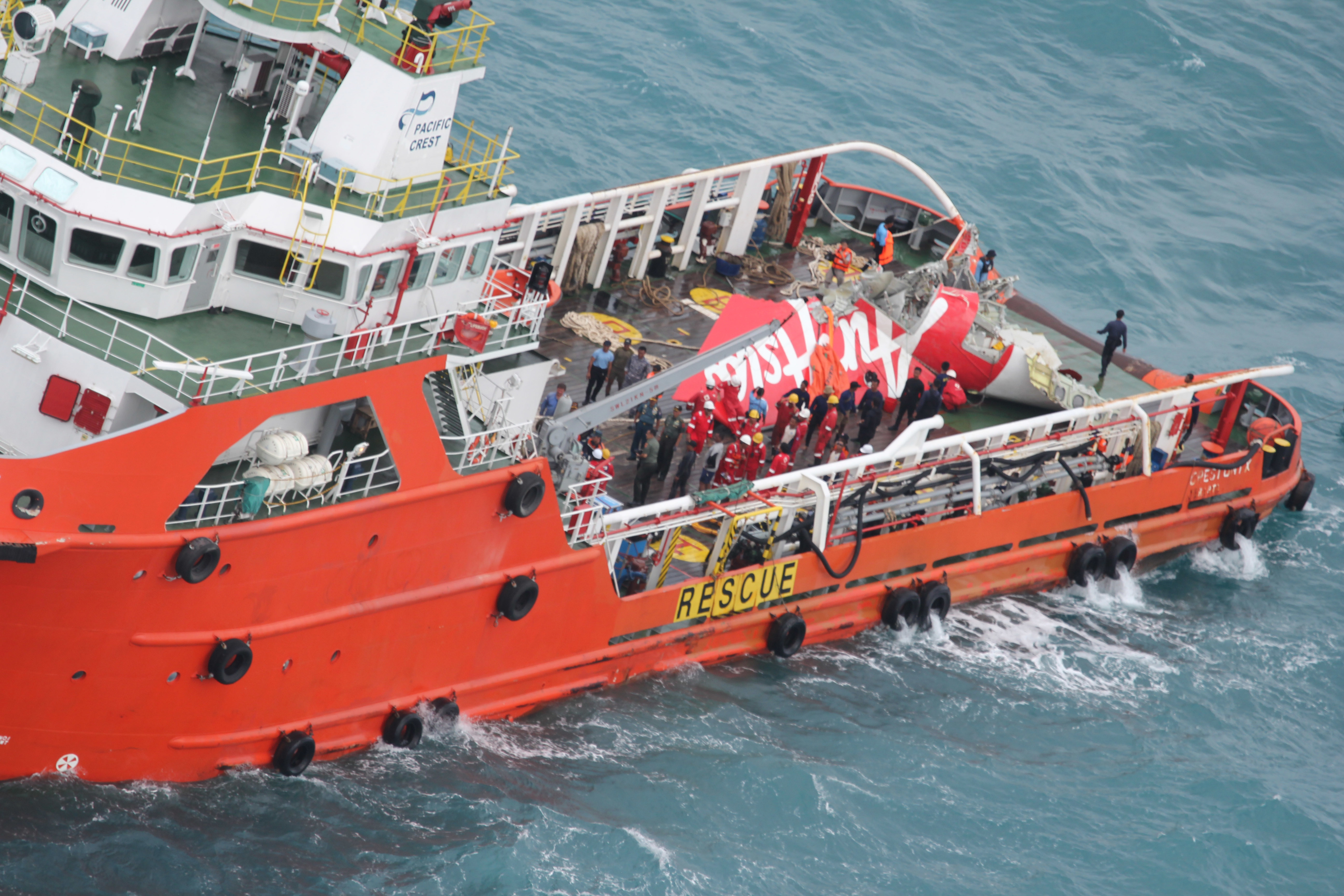 A MH-60R Seahawk helicopter assigned to littoral combat ship USS Fort Worth (LCS 3) flies over Crest Onyx, an offshore supply ship that lifted the tail of Air Asia Flight QZ8501 from the sea floor. Fort Worth and guided missile destroyer USS Sampson (DDG 102) are supporting Indonesian-led efforts to locate the downed aircraft and are currently operating near where the tail section was discovered. (U.S. Navy photo by Mass Communication Specialist 2nd Class Antonio P. Turretto Ramos)